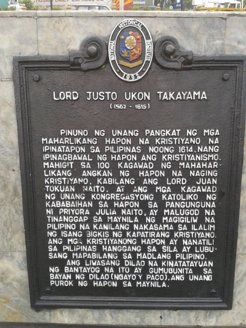 Takayama Marker